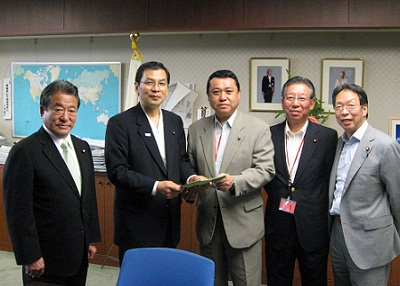 Tōru Kuwabara, Chairperson of the Metropolitan Administration and Finance System Research Special Committee, Sapporo City Council, and Satoshi Kosuda, Vice-Chairperson of the Metropolitan Administration and Finance System Research Special Committee, Sapporo City Council, met Akihiro Ōhata, Minister of Land, Infrastructure, Transport and Tourism, and Wakio Mitsui, Senior Vice-Minister of Land, Infrastructure, Transport and Tourism, with Satoshi Arai, Member of the House of Representatives, at the Central Government Building No.3 in Chiyoda Ward, Tōkyō Metropolis on August 1, 2011.